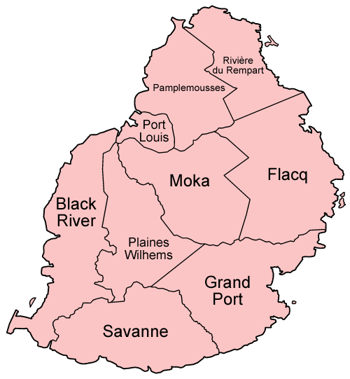 Map of the districts of Mauritius, named in local names. Made by User:Golbez.